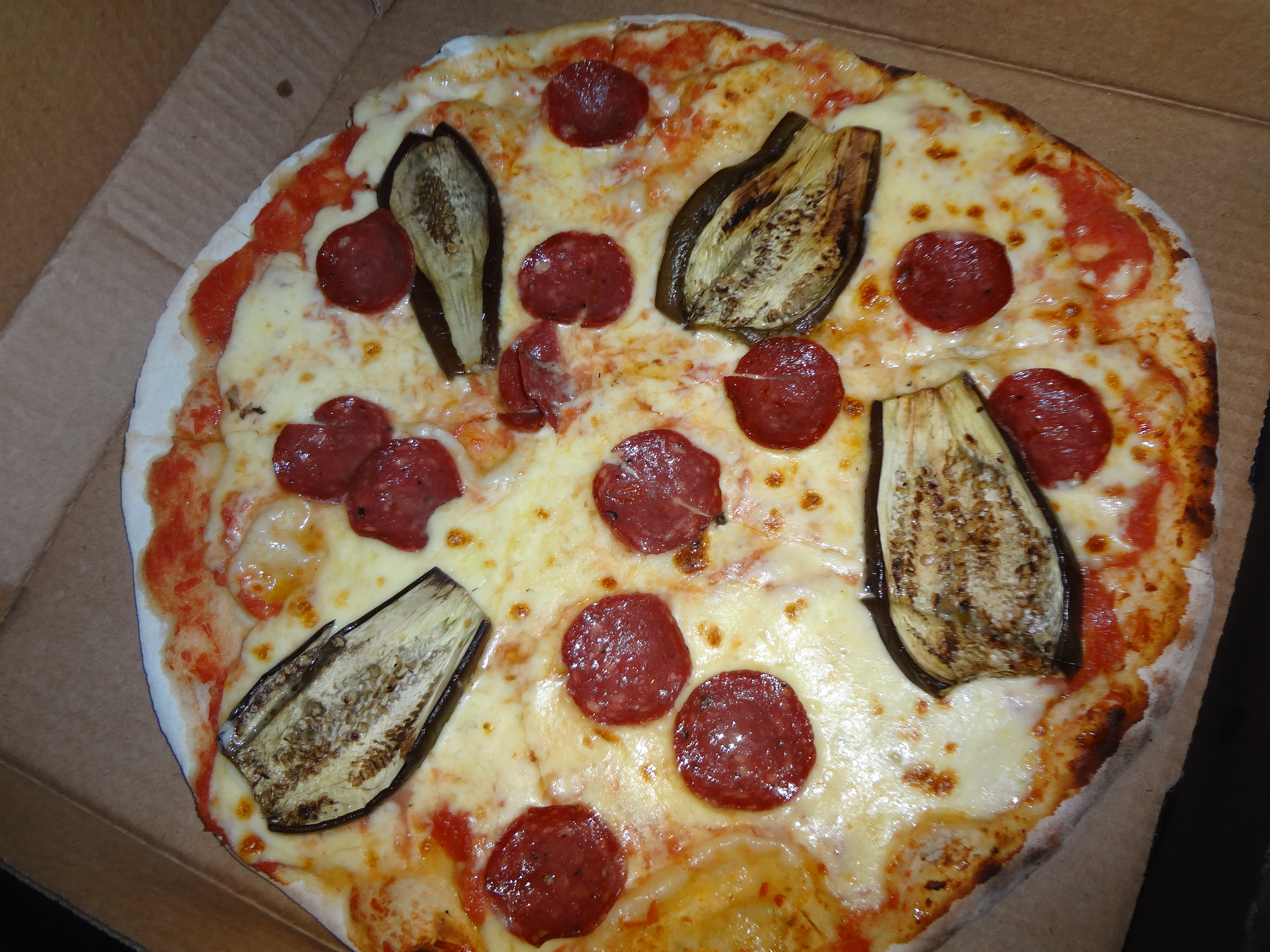 ((peperoni pizzeria)) Al Forno, Quito Pizza in Ecuador Historic Center of Quito UNESCO World Heritage Site